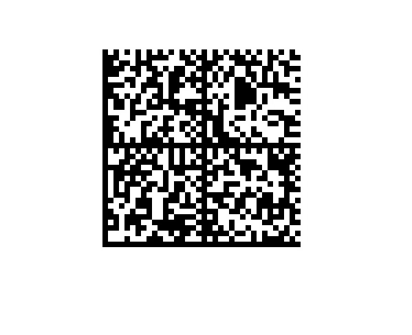 Datamatrix